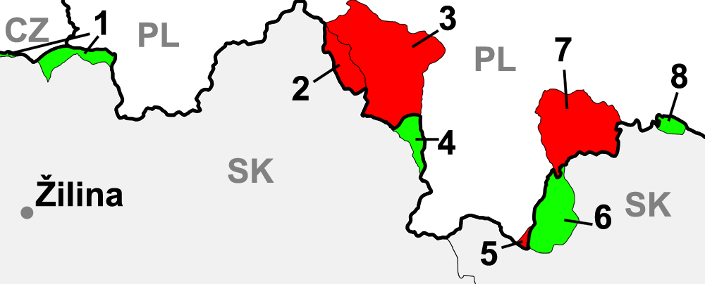 map of Slovakia with border-changes in the north against Poland. Legend 1 - Skalité territories, from 2 October 1938 - 21 November 1939 to Poland 2 - Lipnica Wielka territories, from 1918 - 12 March 1924 part of Slovakia, exchanged with no.4 3 - northeast Orava territories (Jabłonka), from 1918 - 21 November 1939 and after 20 May 1945 to Poland 4 - Hladovka and Suchá Hora territory, from 1918 - 12 March 1924 part of Poland, exchanged with no.2 5 - tiny area below "Rysy" that changed from Hungarian to Austrian territory in 1902, now Poland 6 - Javorina territories, from 1918-1919 to Poland; from 1 December 1938 - 21 November 1939 to Poland 7 - northwest Spiš territories (Nowa Biała), from 1918 - 21 November 1939 and after 20 May 1945 to Poland 8 - Lesnica territory, from 1918-1919 to Poland; from 1920-1938 to Slovakia; from 1 December 1938 - 21 November 1939 to Poland